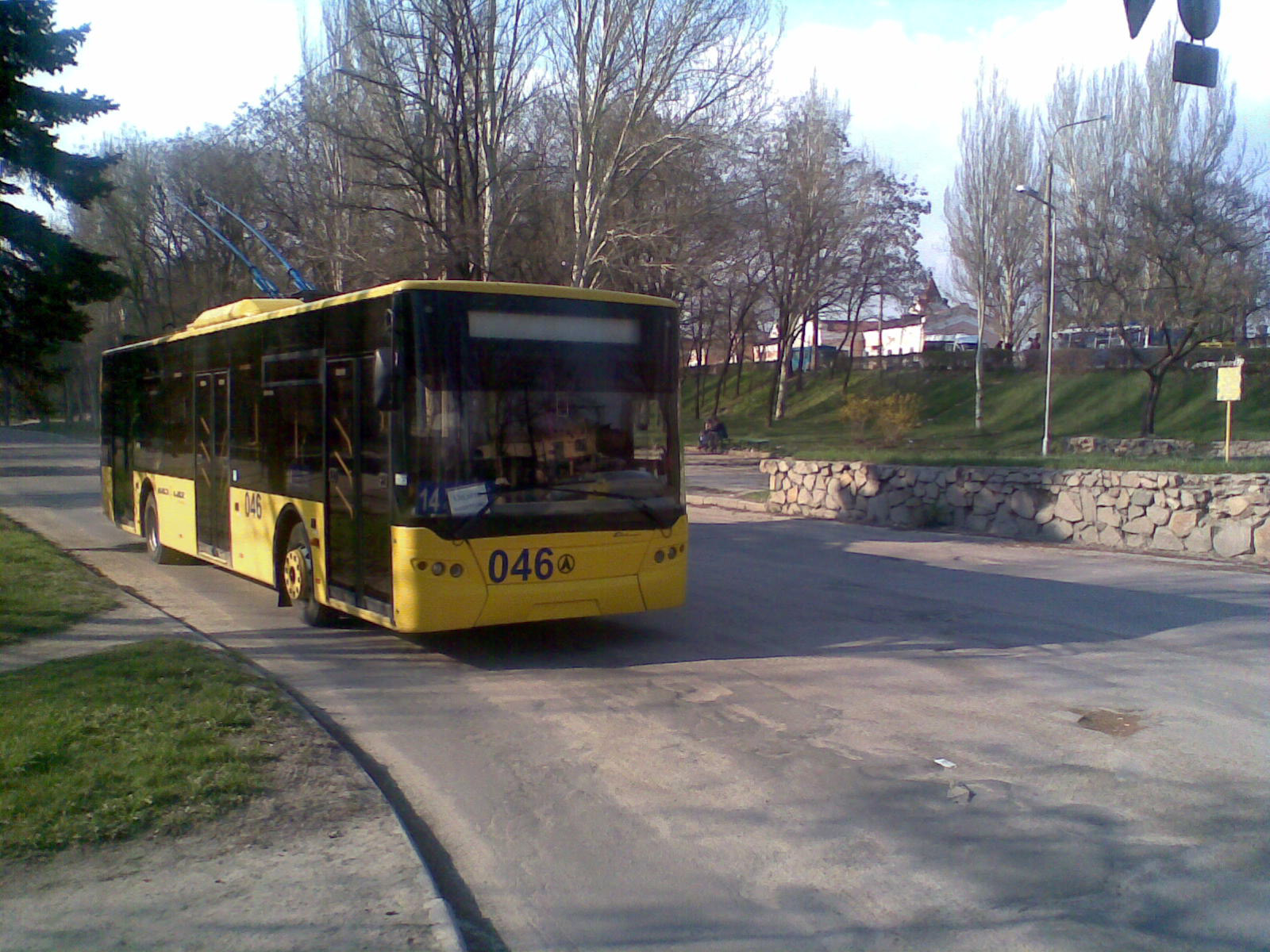 Trolleybuses in Zaporizhzhya